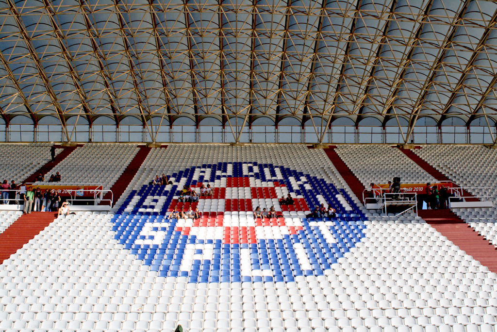 Poljud - east stand